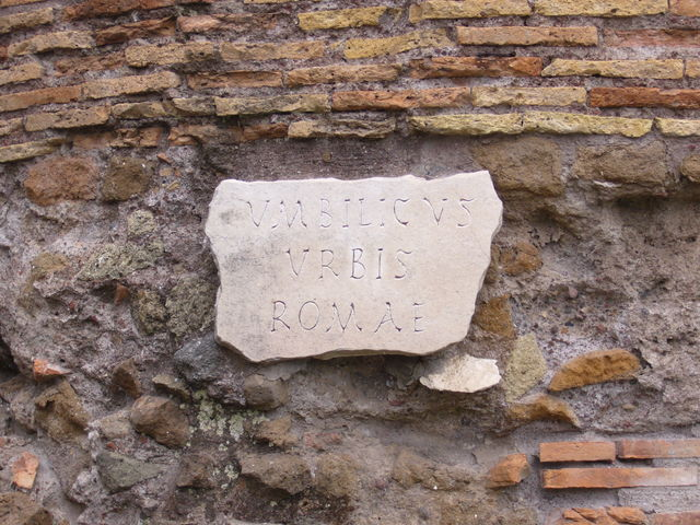 Taken by myself - Lylum 18:17, 20 June 2006 (UTC)